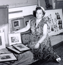 Helen Farr Sloan in 1960.